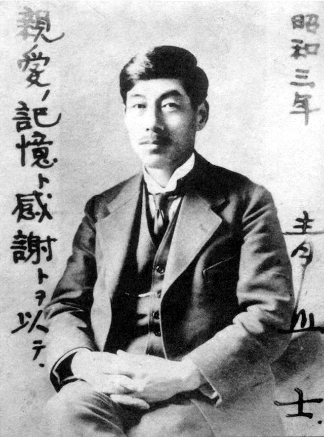 Akira Aoyama was a bureaucrat in Japan.